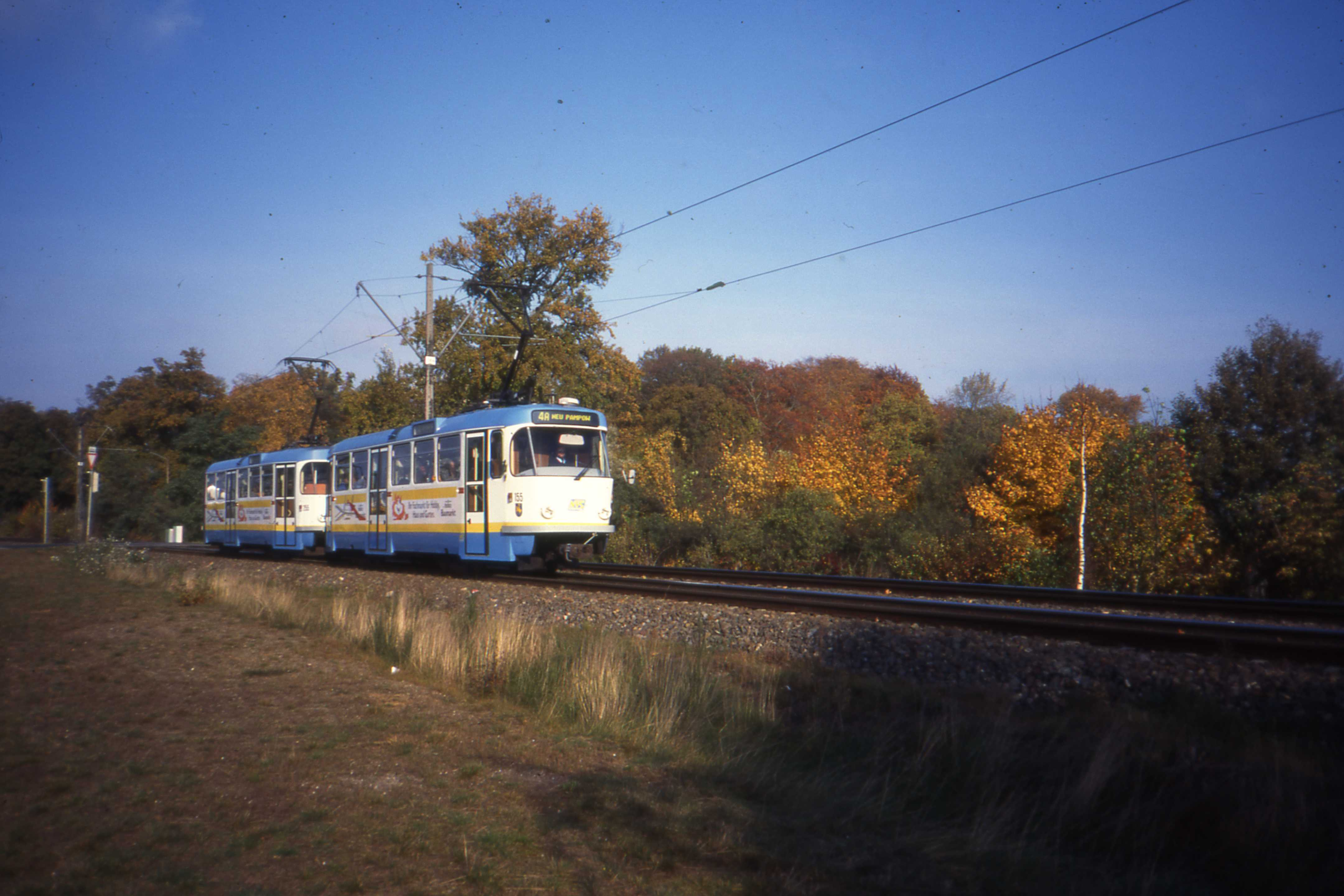 Tatra T3DC1 trams in Schwerin, Germany